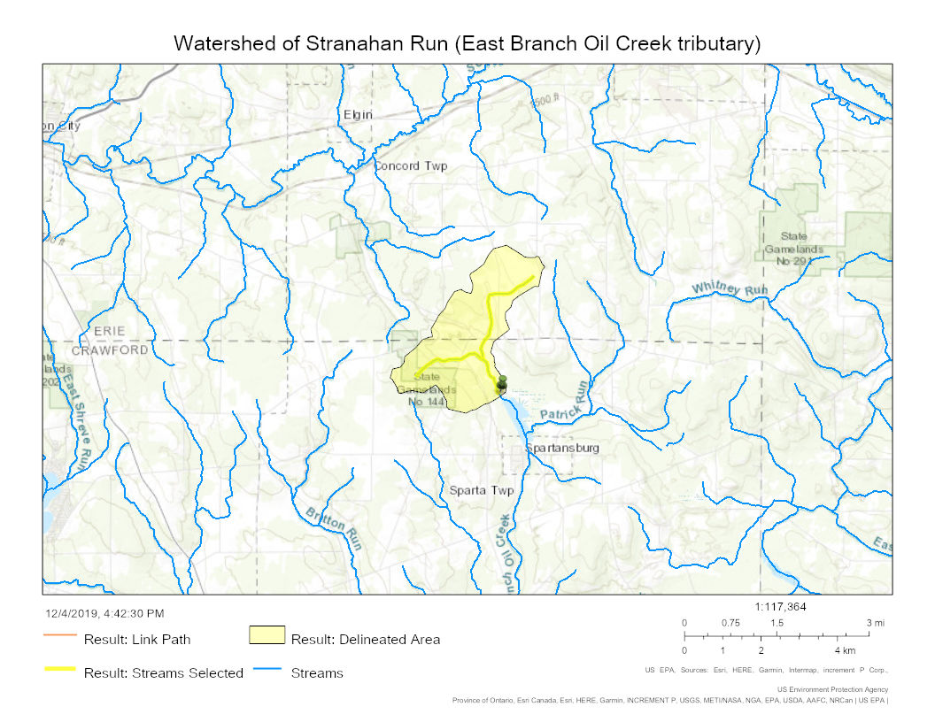 Map of the watershed of Stranahan Run (East Branch Oil Creek tributary) in Crawford and Erie Counties, Pennsylvania